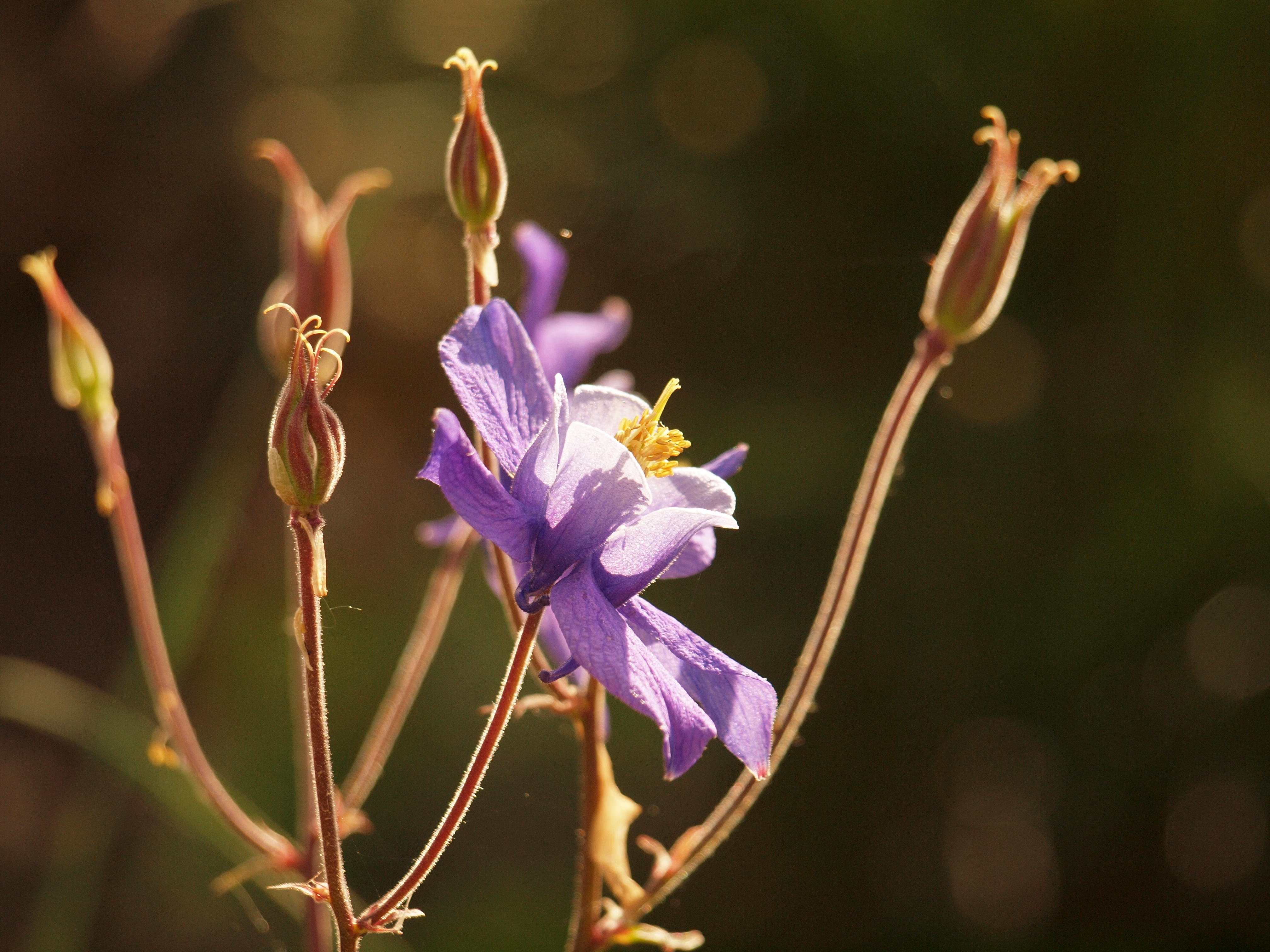 Dinaric columbine, Aquilegia dinarica